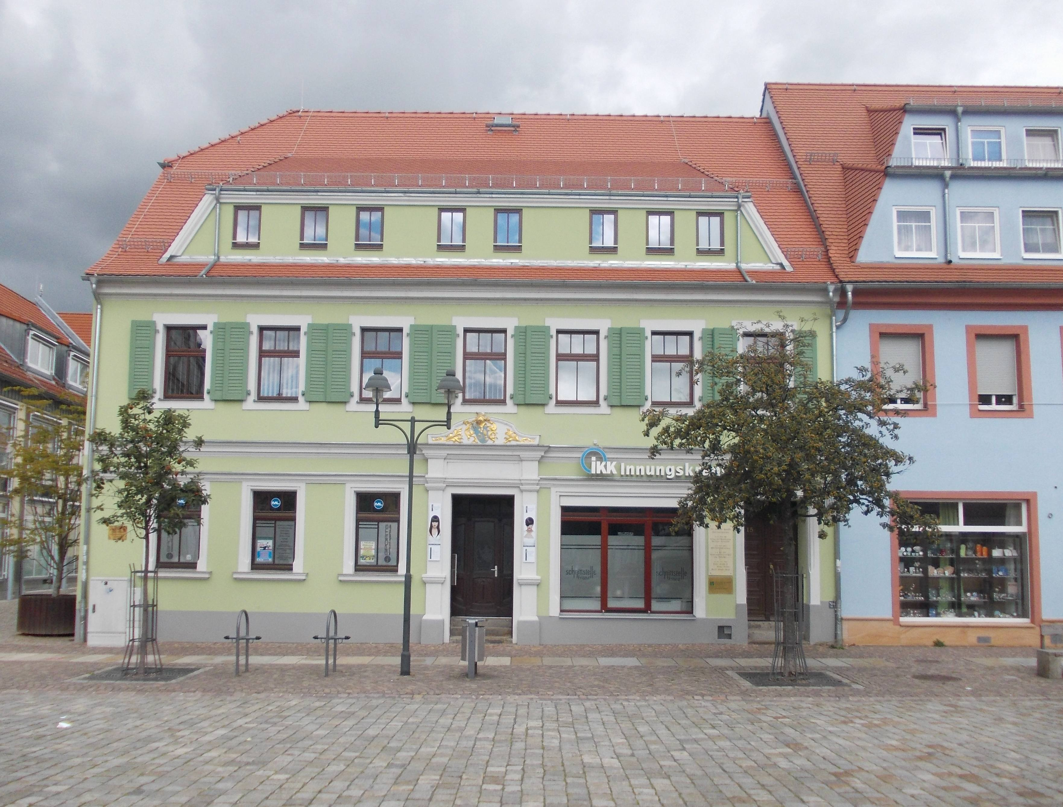 No. 15, Niedermarkt in Döbeln (Mittelsachsen district, Saxony), birthplace of the painter Erich Heckel